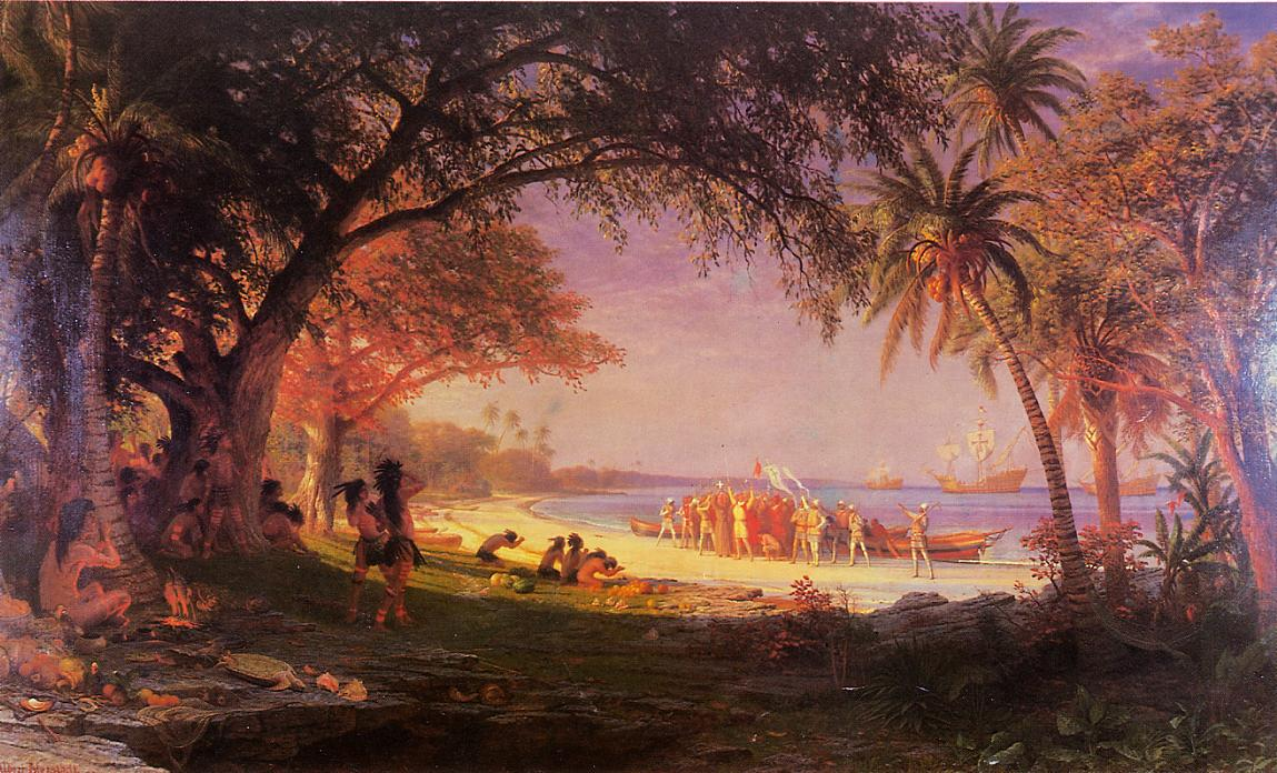 "The Landing of Columbus" — by Albert Bierstadt; 1893?, Oil on canvas, 182.9 × 307.3 cm. (72 × 121 in.) This version of "The Landing of Columbus" is owned by the City of Plainfield, New Jersey. (source: Hendricks, Gordon (1974). Albert Bierstadt: Painter of the American West. New York: Harry N. Abrams, Inc. ISBN 0-8109-0151-X.)